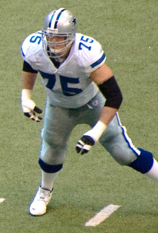 Kimo von Oelhoffen tackles